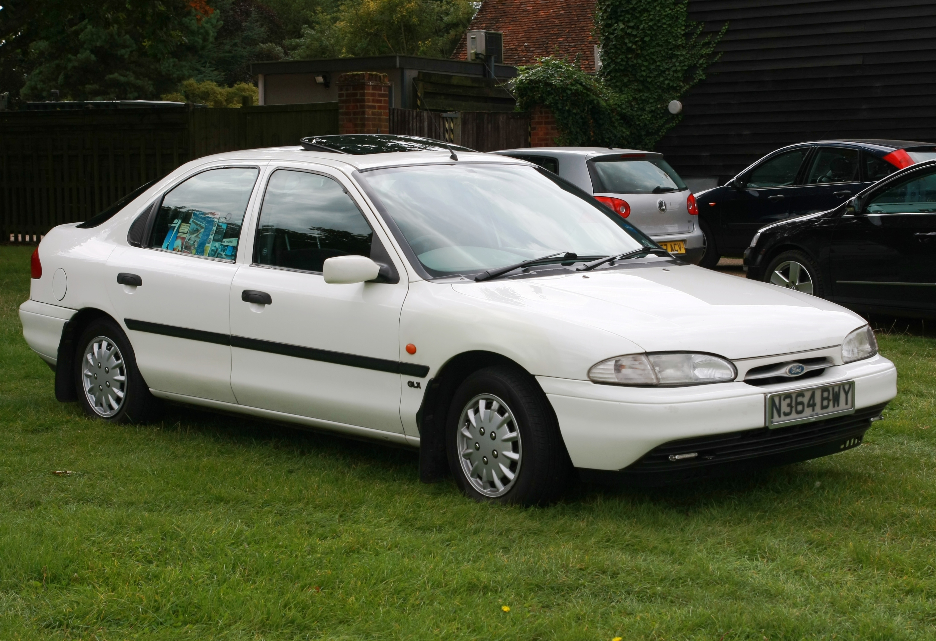 Ford Mondeo MkI hatchback (1995) at Kenbworth (2014)